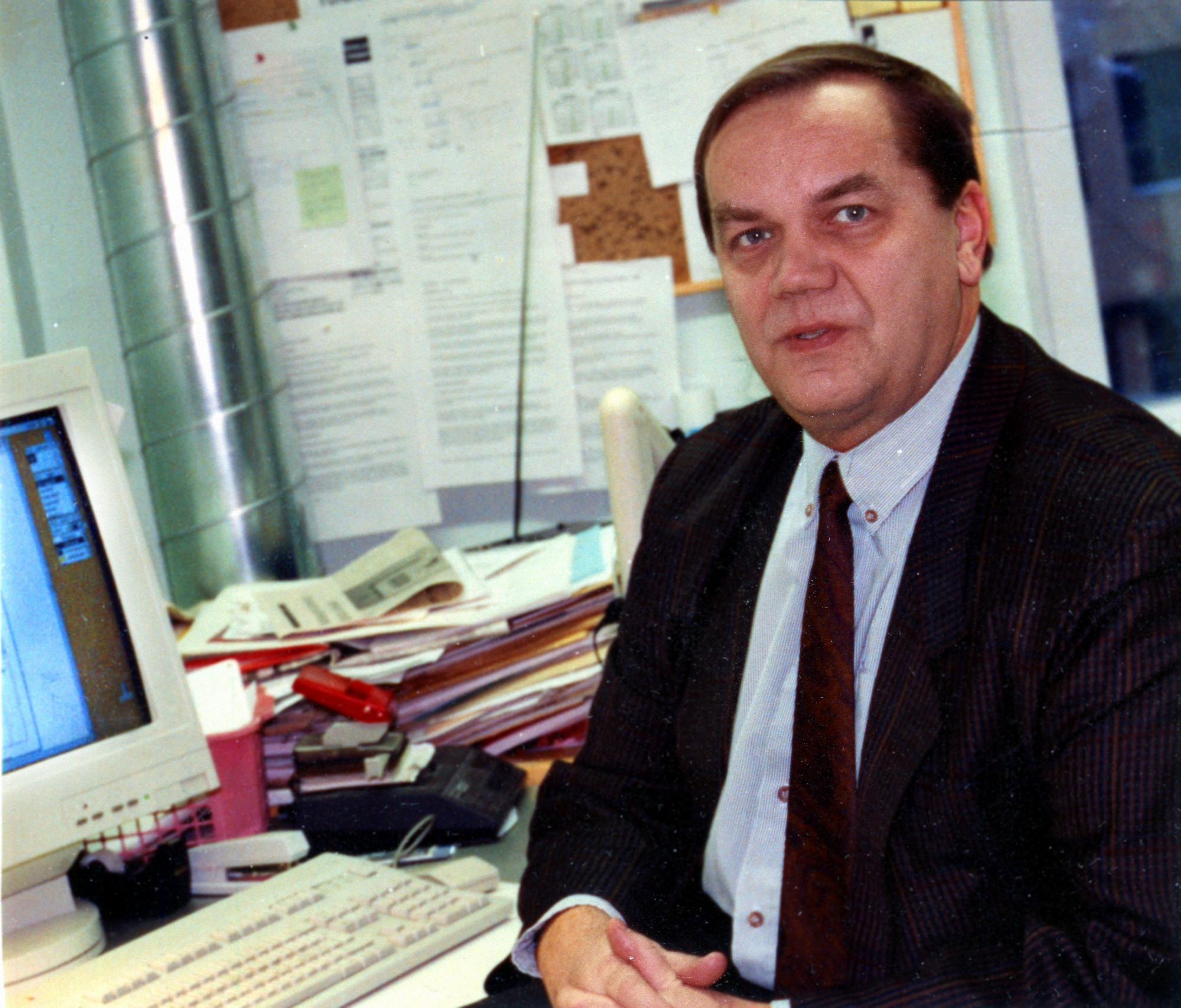 Editor-In-Chief Lauri Kosonen, January 1998, Lappeenranta, Finland